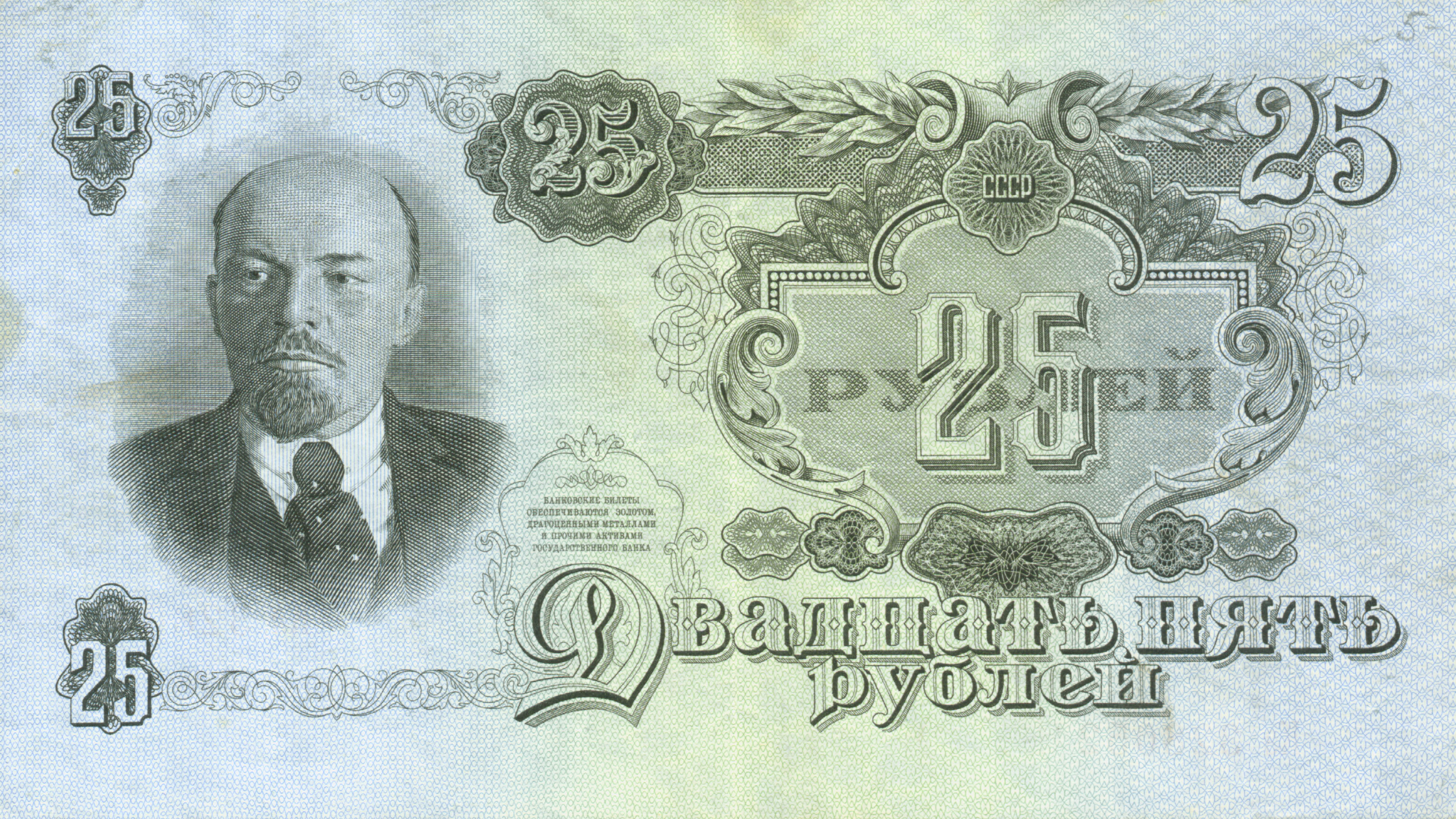 Soviet Union money bill, 1947. See also other side Image:25roubles1947a.jpg. There are two variants of this note. Both with "1947" printed, but one issued in 1947 (with denomination printed in 16 languages), the other issued in 1957 (15 languages), after the Karelo-Finnish SSR (in Russian) is absorbed into Russian SFSR (in Russian). There is no easy way to distinguish from this side, but the other side is the 1947 variant.